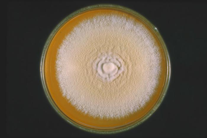 ID#: 2929 Description: This is a top view of a plate culture containing the fungus Trichophyton mentagrophytes. From the front, the color is white to bright yellowish-beige or red-violet. The genus Trichophyton inhabits the soil, humans or animals, and is one of the leading causes of hair, skin and nail infections, i.e. dermatophytosis, in humans. Content Providers(s): CDC Creation Date: 1964 Copyright Restrictions: None - This image is in the public domain and thus free of any copyright restrictions. As a matter of courtesy we request that the content provider be credited and notified in any public or private usage of this image.